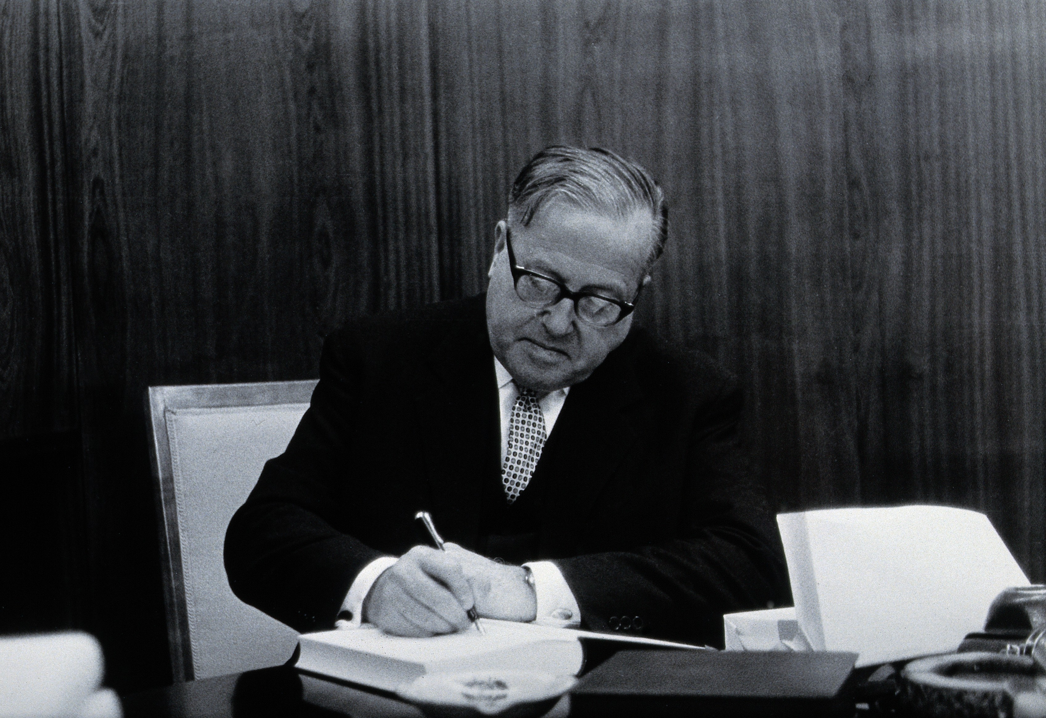 Rudolf Geigy. Photograph by L.J. Bruce-Chwatt.